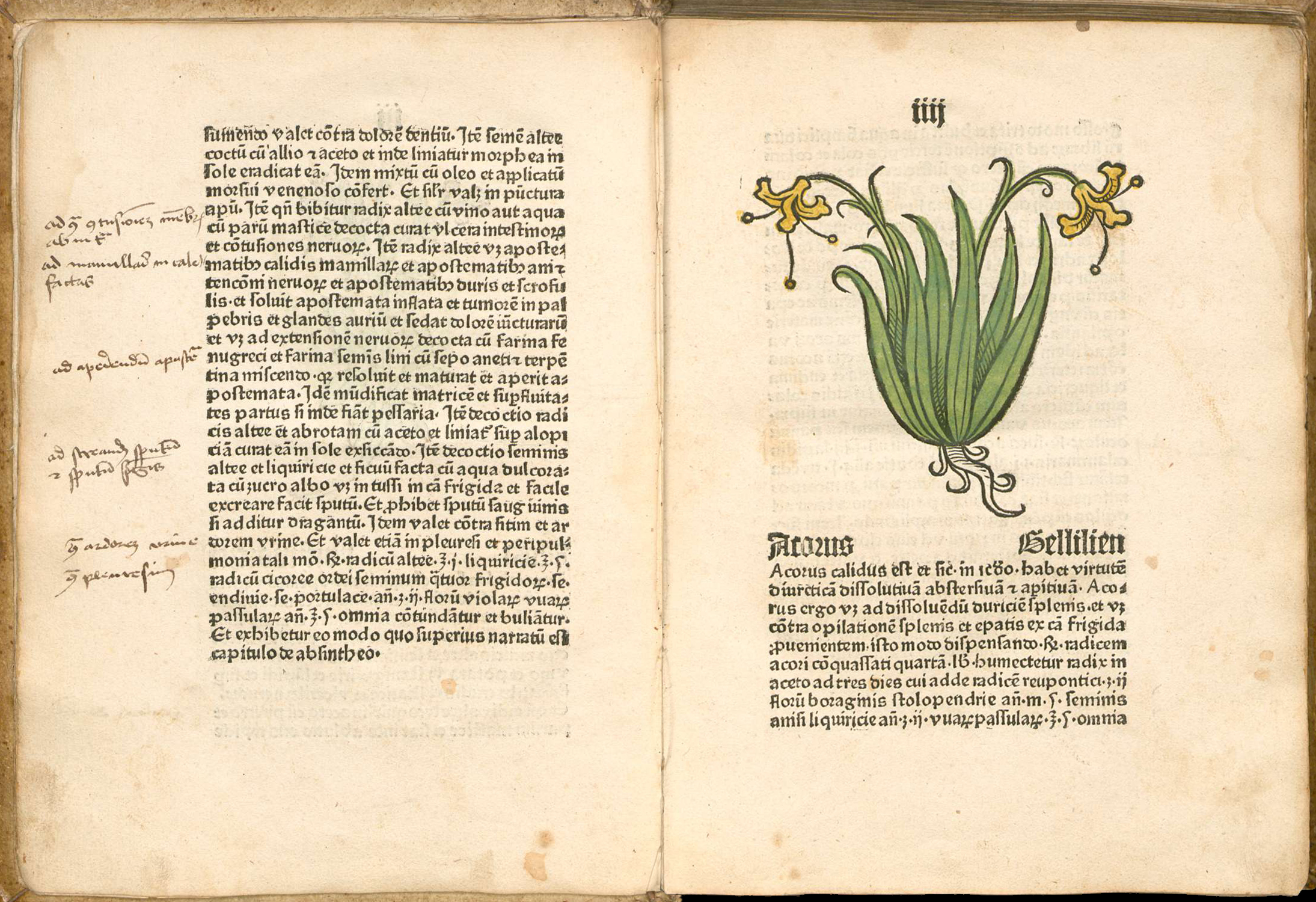 Spread from Herbarius printed by Peter Schöffer in 1484. Copy of the Bayerische Staatsbibliothek.